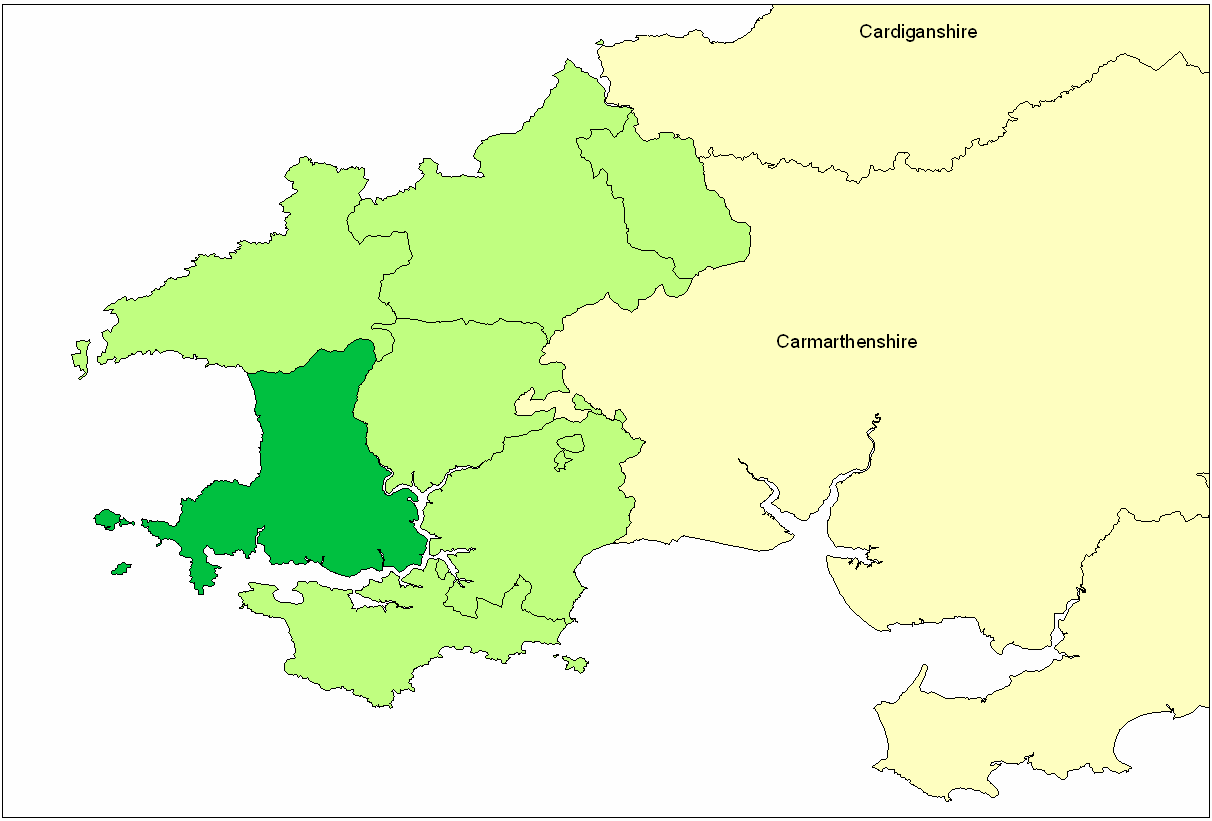 Map showing location of the ancient Hundred of Roose in Pembrokeshire